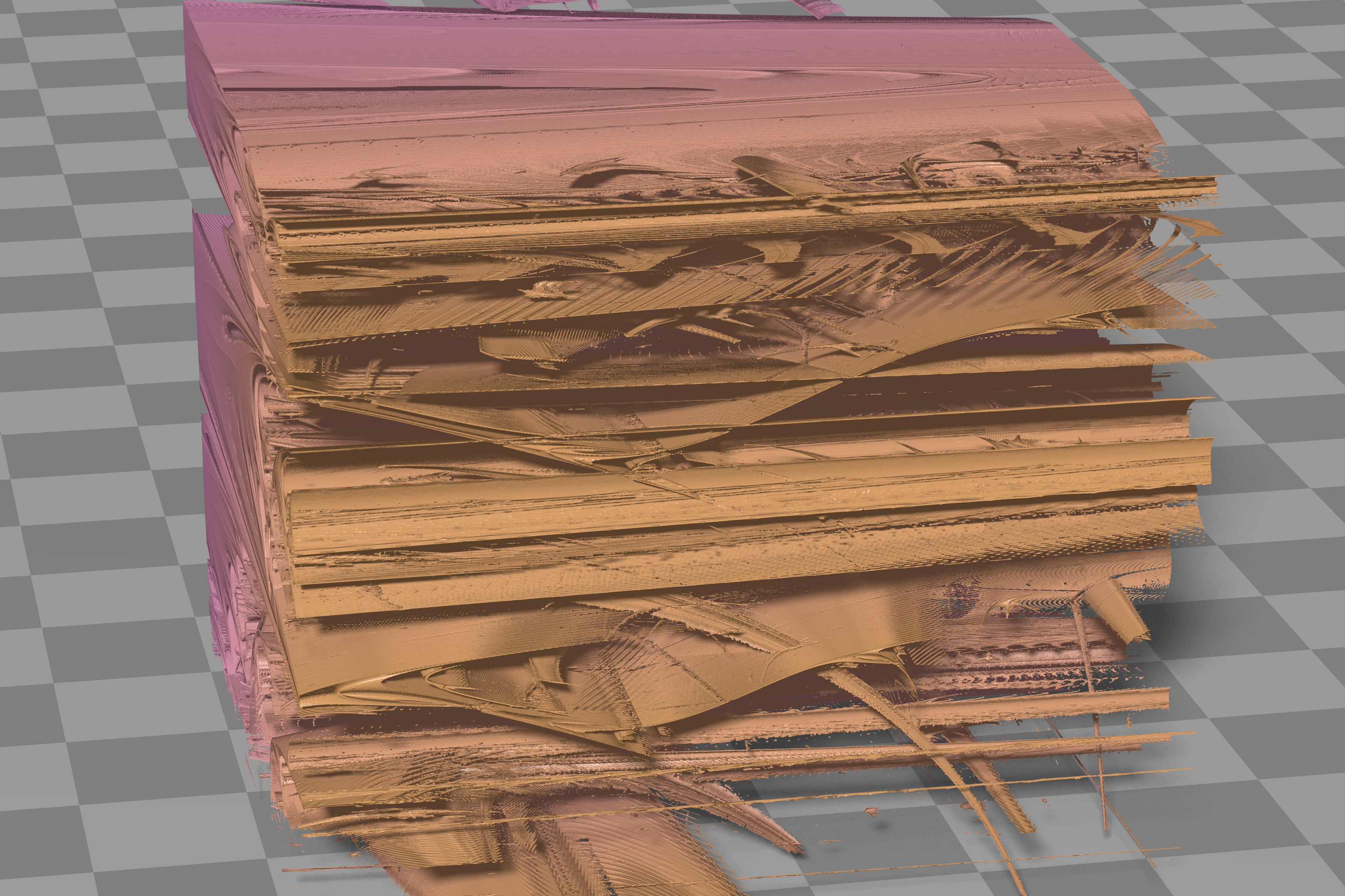 rendering of a 3D version of a lyapunov fractal with the sequence ABCCAAB. Intervals: A=3.2 … 4.0; B=3.2 … 4.0; C=0.5 … 4.15